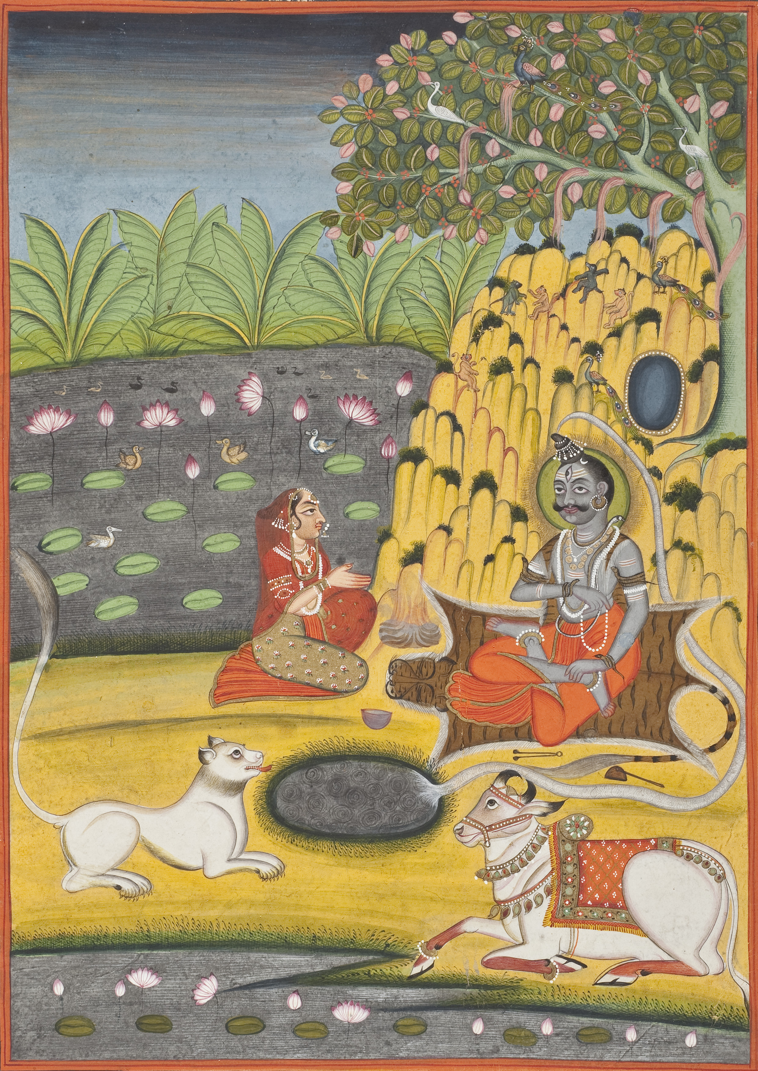 Parvati Worshipping Shiva, Painting; Watercolor, Opaque watercolor, gold and silver on paper, Image: 8 x 5 5/8 in. (20.32 x 14.29 cm); Sheet: 11 x 9 in. (27.94 x 22.86 cm) Made in: India, Madhya Pradesh, Datia